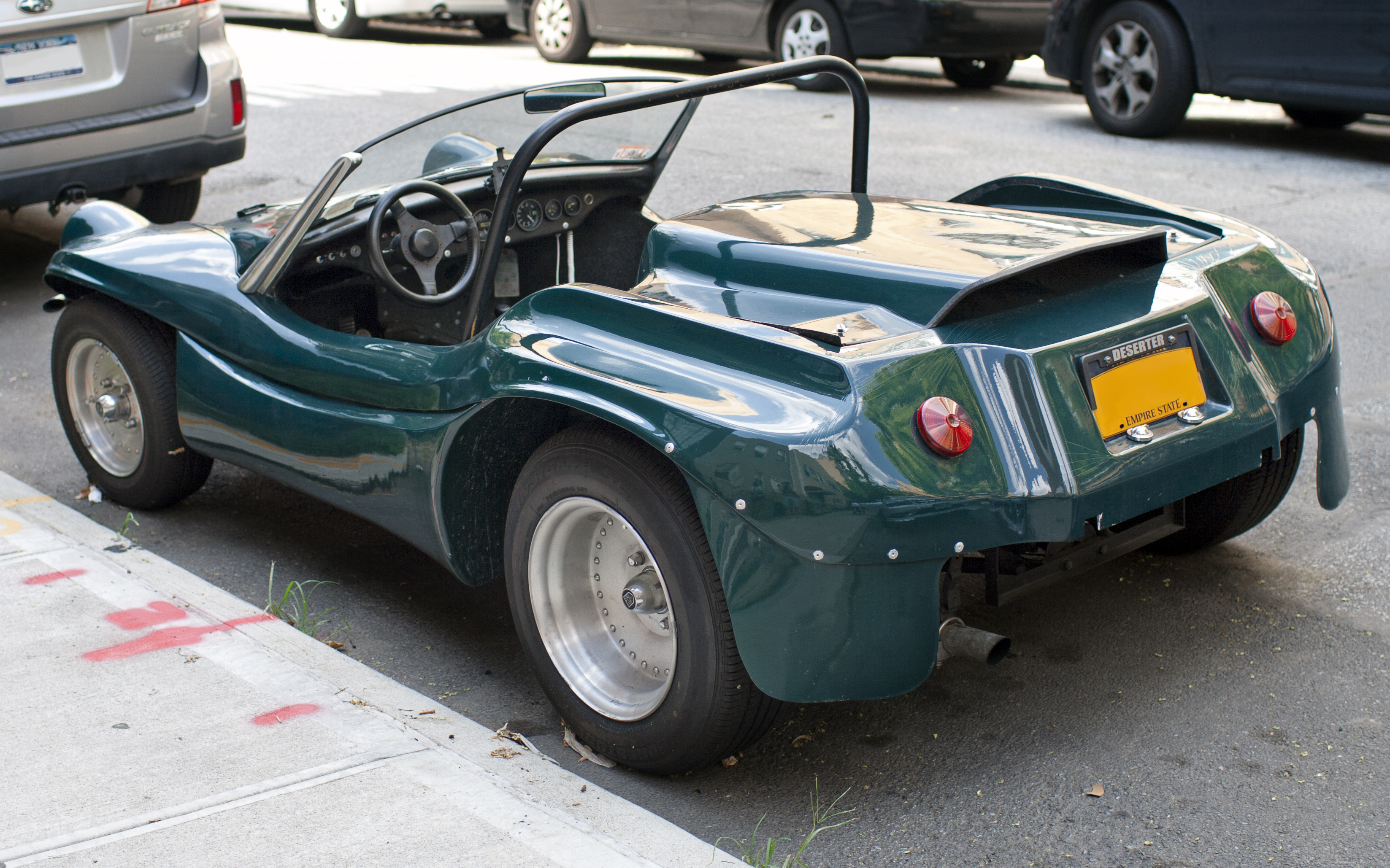 1971 Deserter GS - this version of the Deserter GT buggy had its own tubular mid-engined frame and was intended for competition. This one has a 1600cc engine (Porsche or VW), many were fitted with tuned Chevrolet Corvair engines. 134 chassis were built.